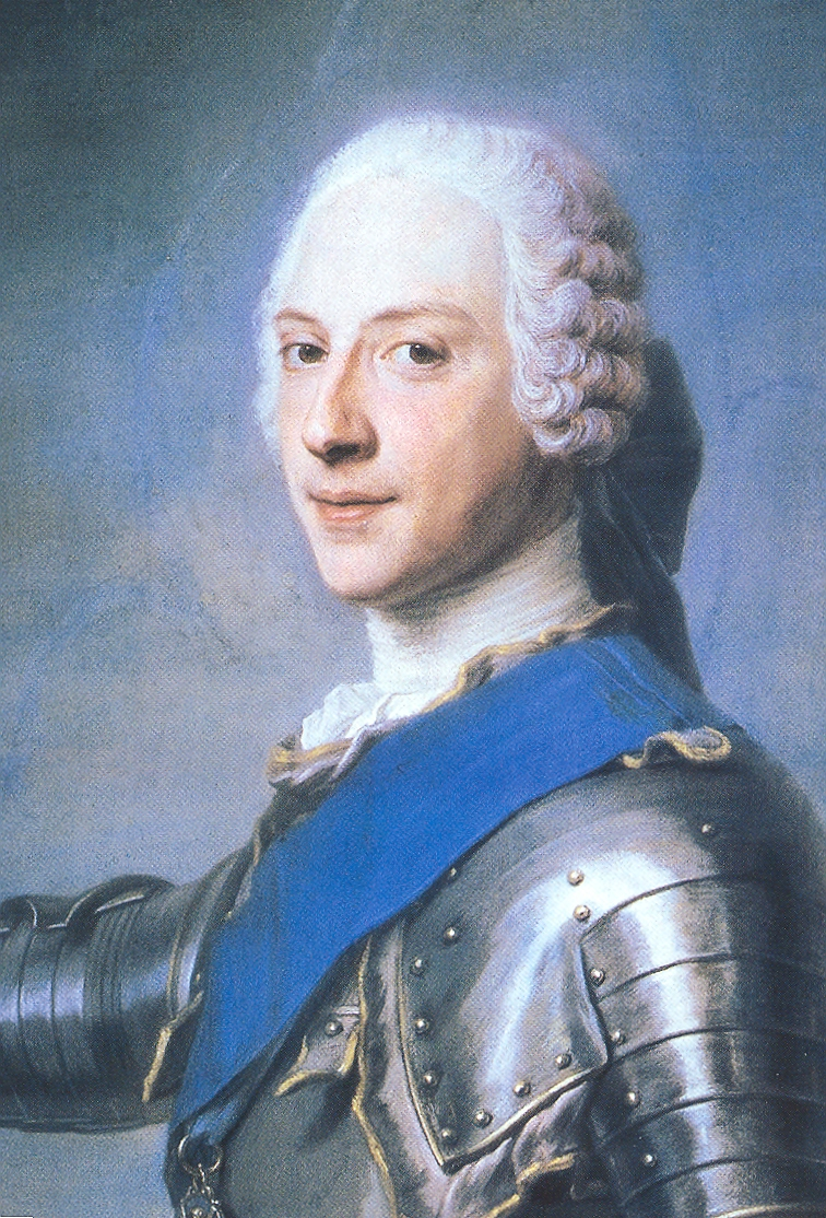 Prince Henry Benedict Clement Stuart, Youngest son of Prince James Francis Edward Stuar (1725–1807) ; the brother of Prince Charles Edward Stuart